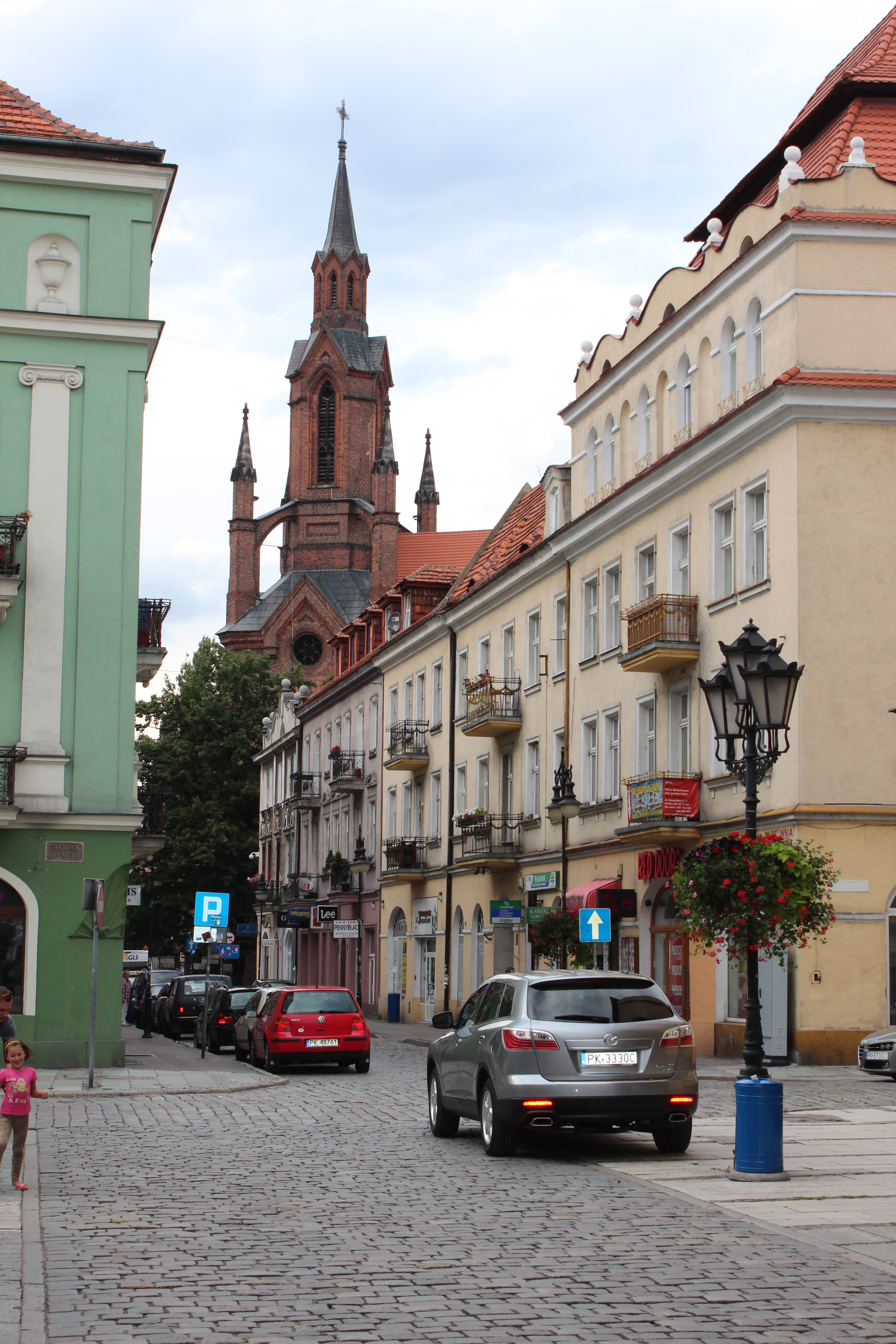 Saint Nicholas Cathedral in Kalisz